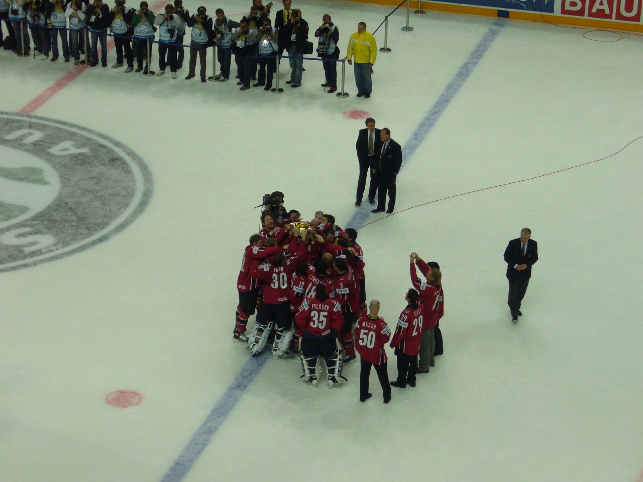 Team Canada wins the 2007 IIHF WC